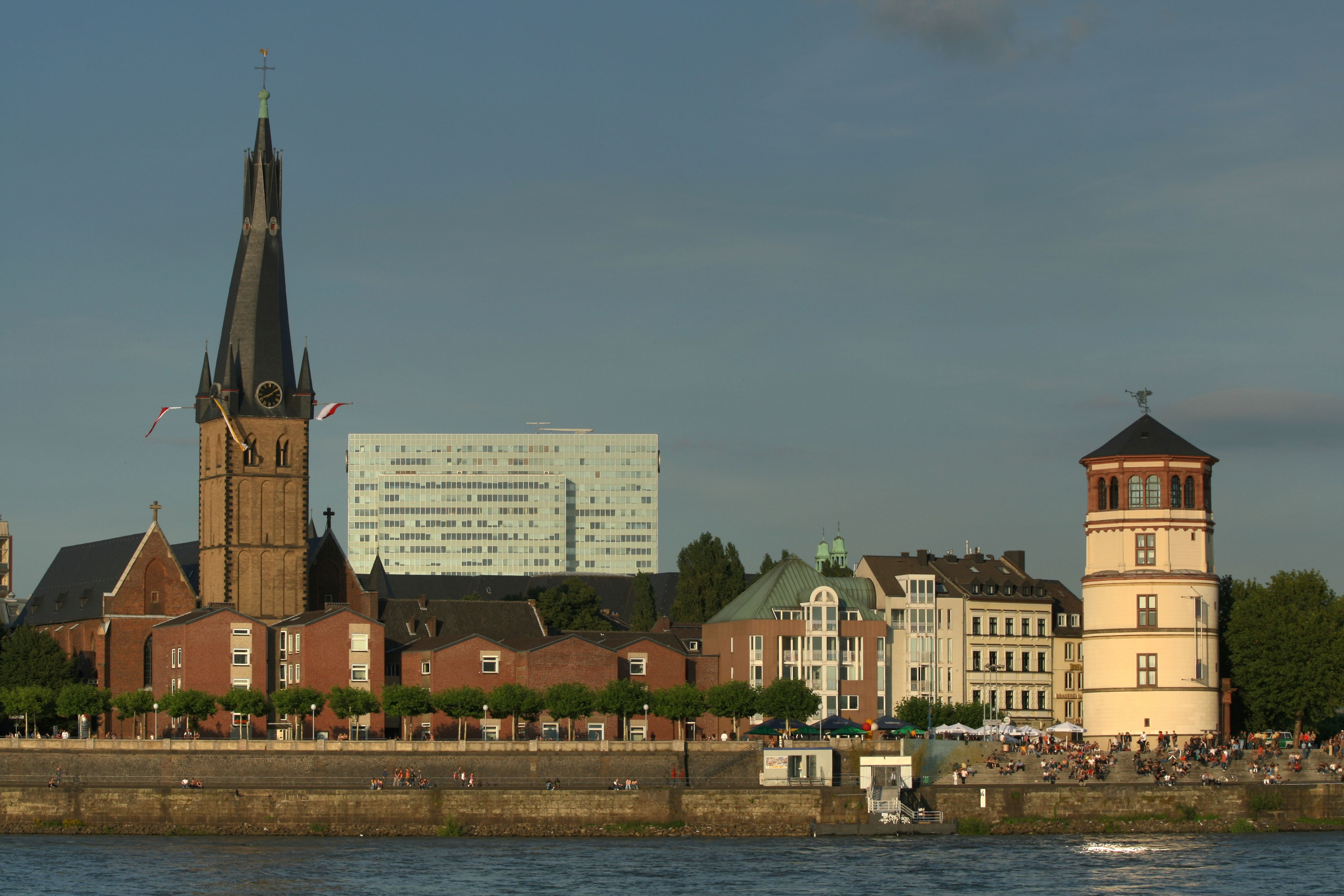 St. Lambertus church and Burgplatz in Düsseldorf, Germany.